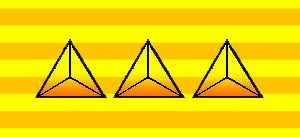 General First and Second Class rank insignia (ROC, NRA)